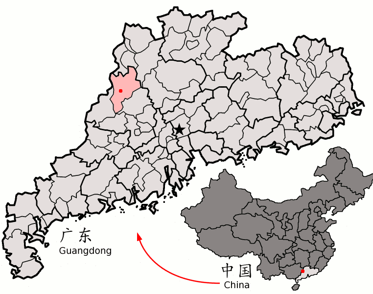 Location of Huaiji within Guangdong province of China